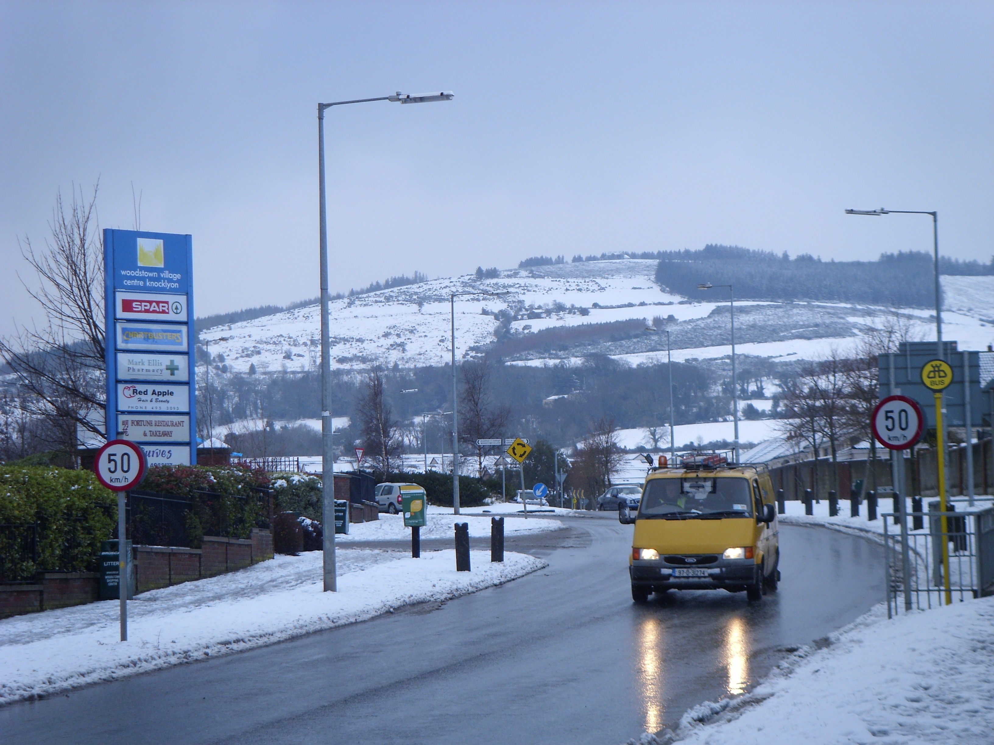 Ballycullen Road near Tallaght, Ireland on 3 February 2009. Firhouse during the February 2009 snowfall showing Montpellier Hill and the Hell Fire Club.